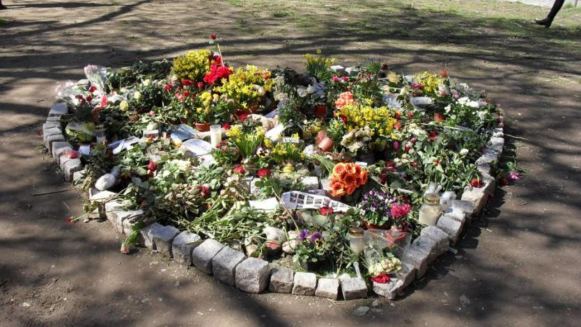 Oslo flower memorial